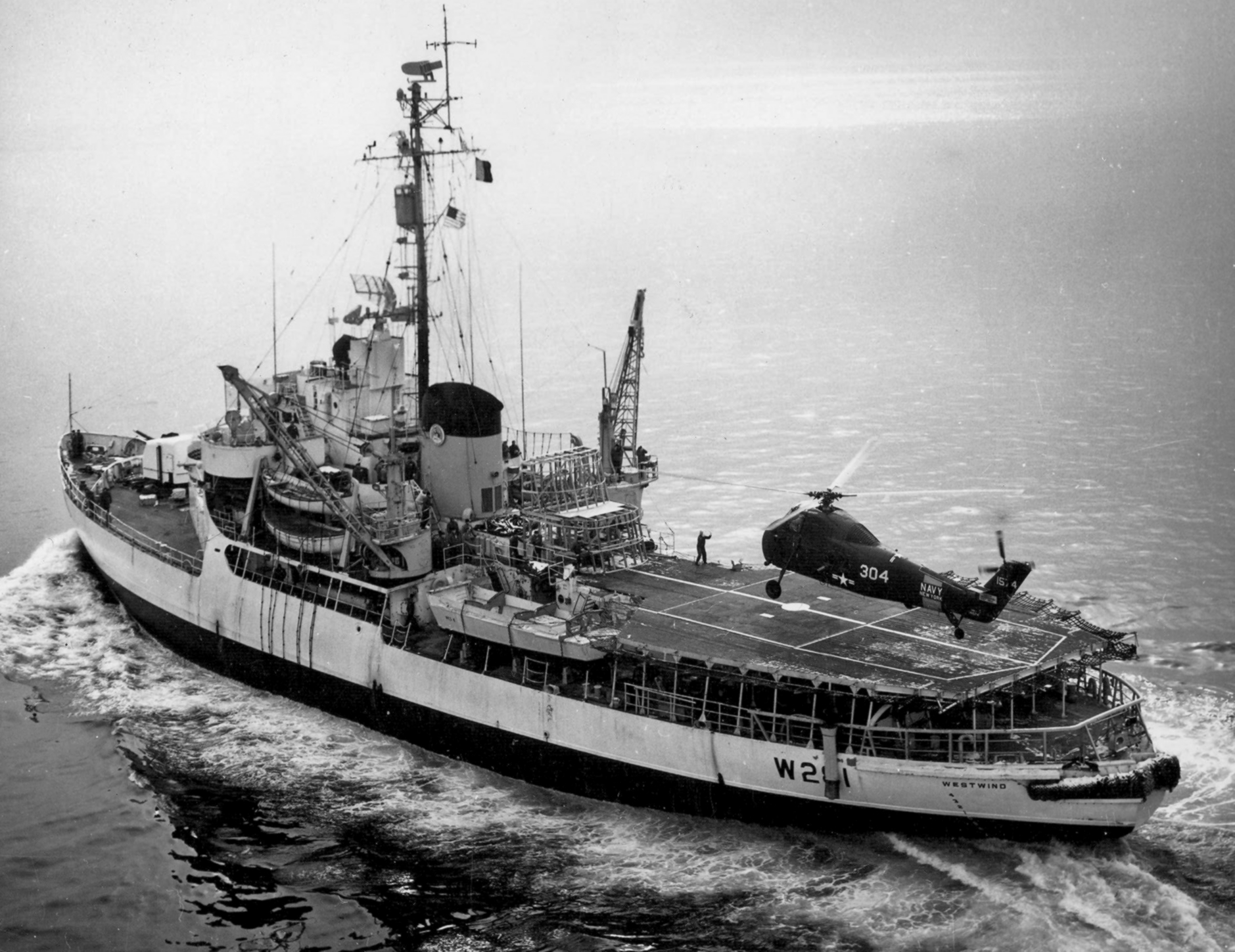 A U.S. Navy New York Naval Air Reserve Sikorsky HSS-1 Seabat landing on the deck of the U.S. Coast Guard icebreaker USCGC Westwind (WAGB-281) operating in the Atlantic off the east coast of the United States, in 1961.